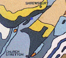 A geological map of the Shropshire hills between Shrewsbury and Church Stretton creating excellent conditions for mountainbiking